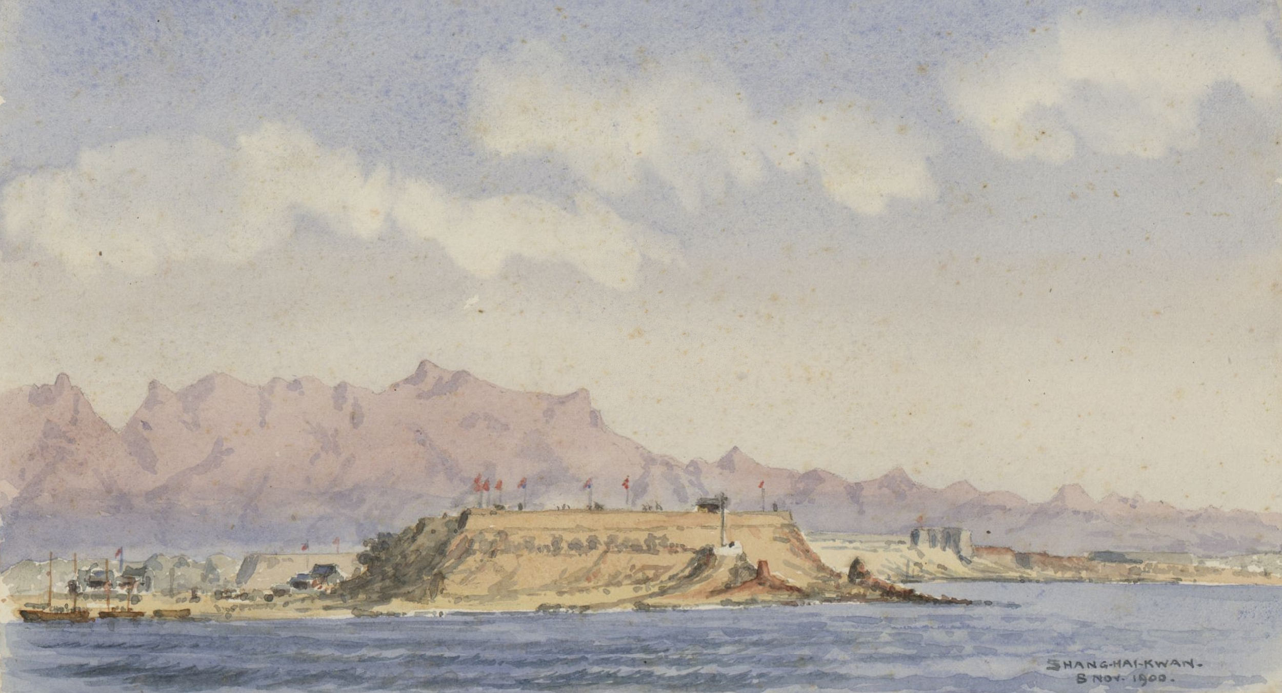 A volume of drawings of the Far East.